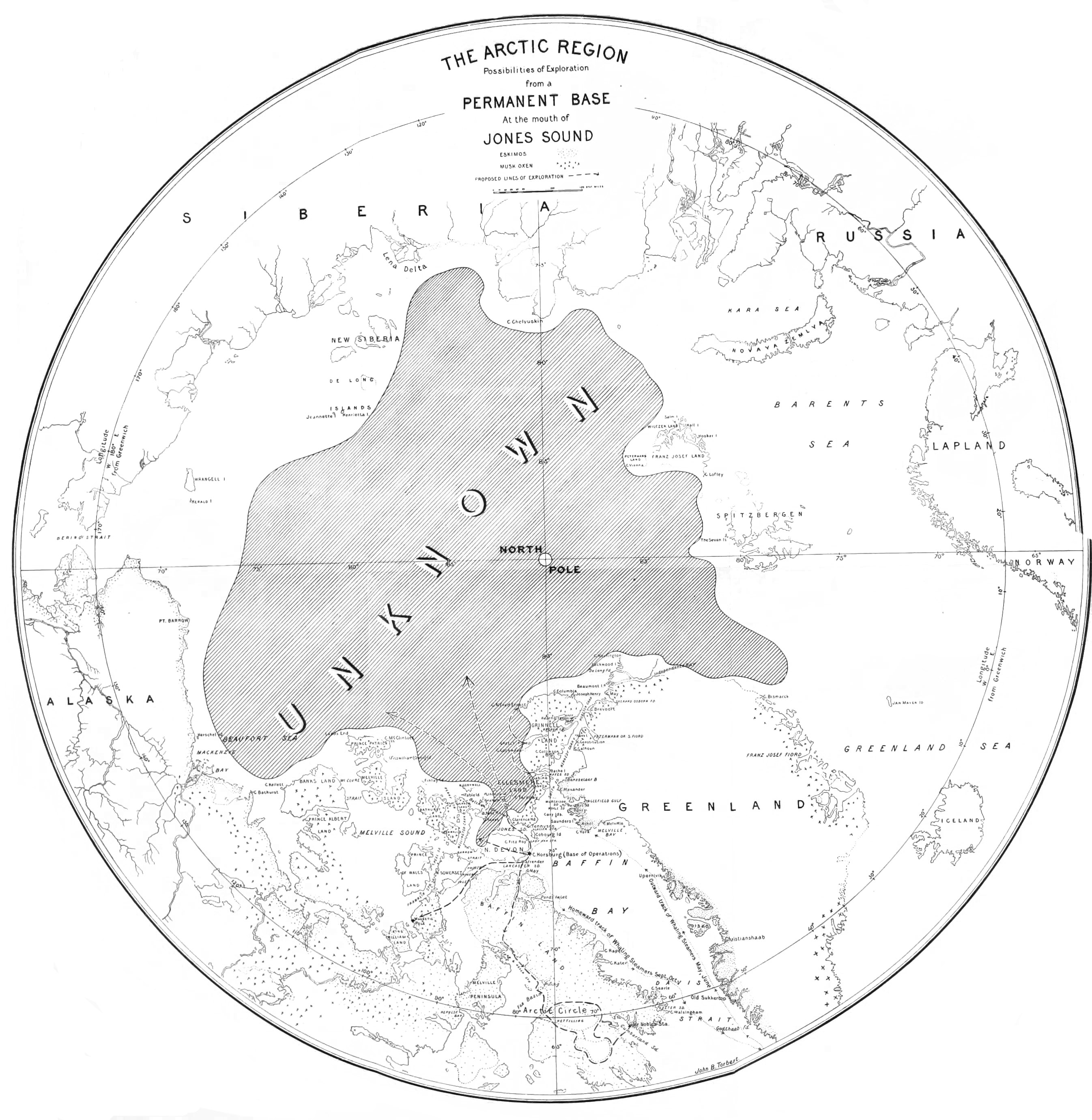 Map of the Arctic from Proposed System of Continuous Polar Exploration from Volume 49 of the Popular Science Monthly.